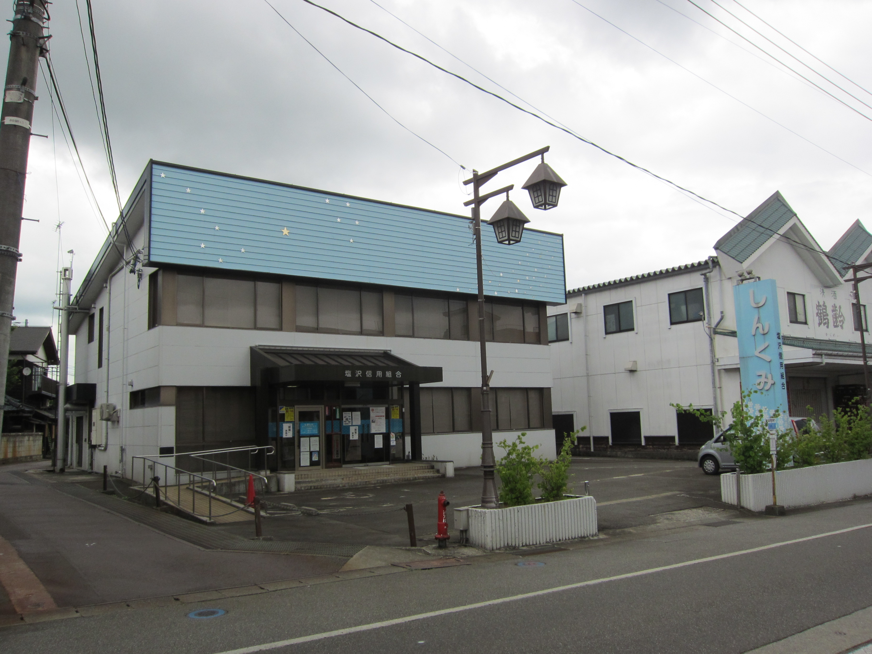 Shiozawa Credit Union Head Office